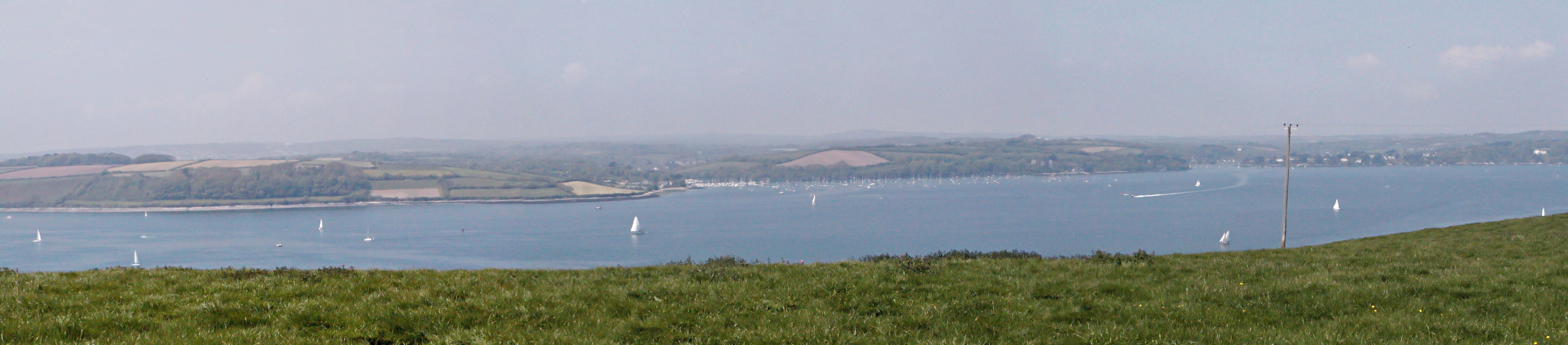 Carrick Roads between Falmouth and Feock, as seen from Roseland, left hand Mylor, right hand Feock